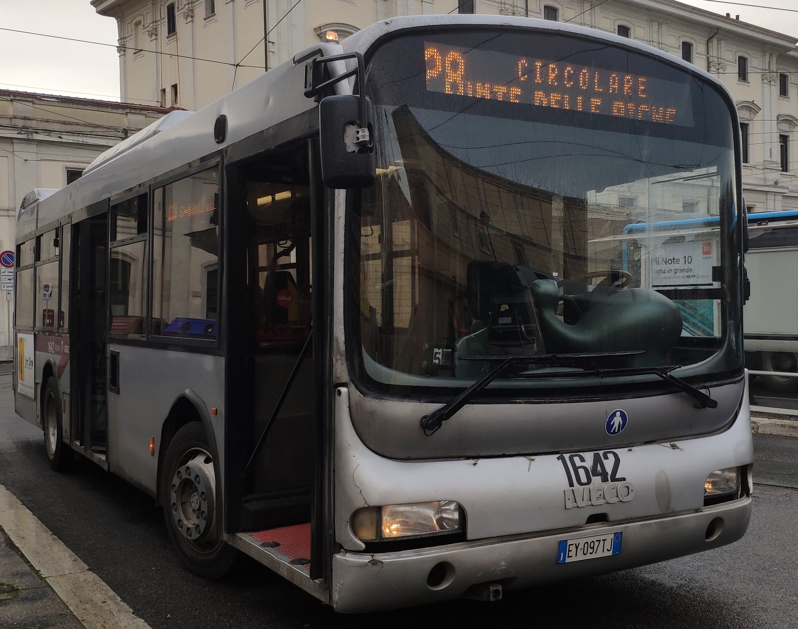 An ATAC Iveco 200E Europolis 9.2 (Nr. 1642) serving on line 228 in piazza Flavio Biondo, at Staz.ne Trastevere (FS) bus stop (ID: 72019).